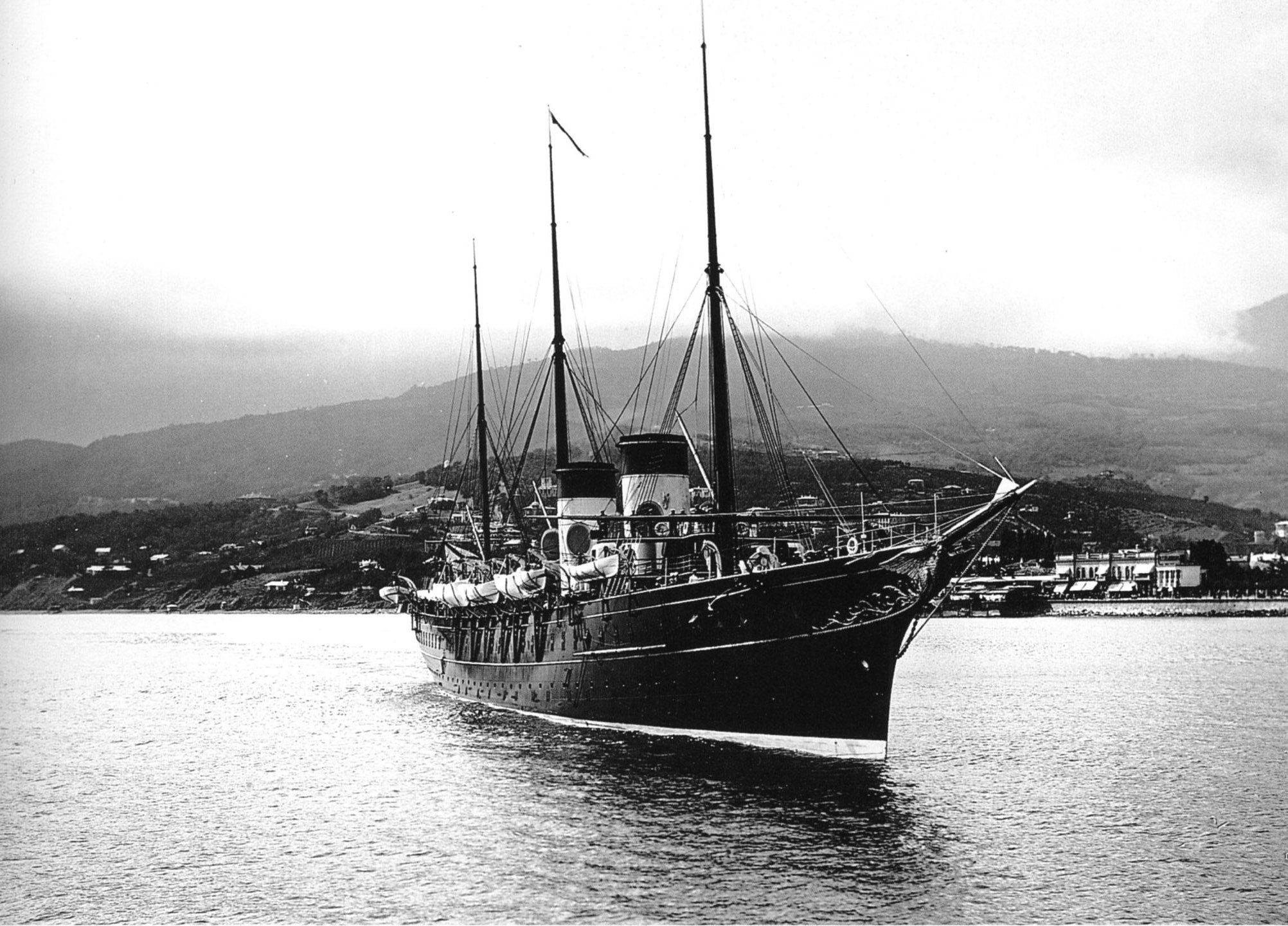 Imperial Russian yacht Shtandart (1893–1961), off the coast of the Crimea, near Yalta, in 1898.